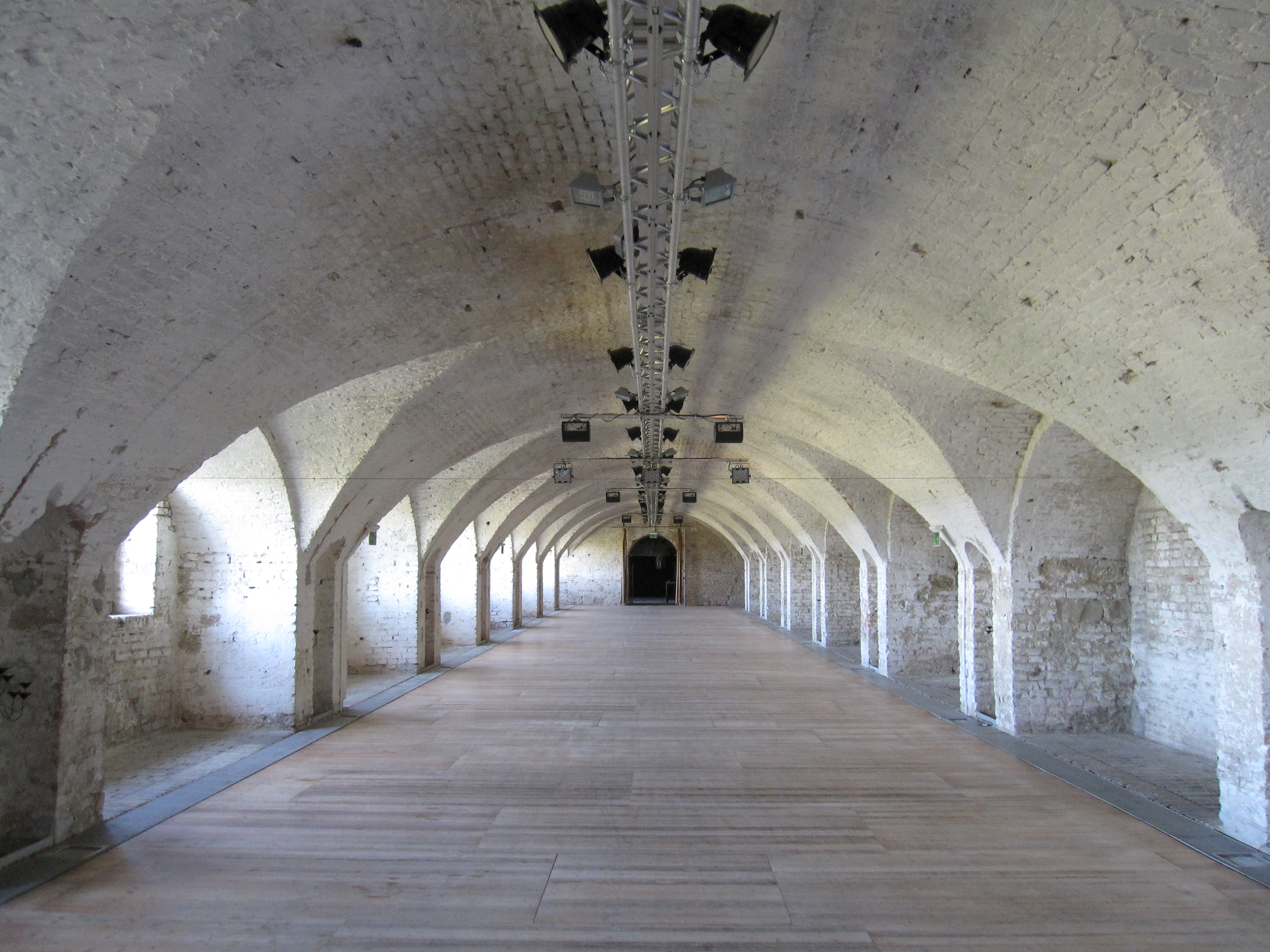 Eastern gallery on the ground floor, one of the so-called Schöne Säle, or "Beautiful Halls", of Neugebäude Palace in Vienna, Austria. It is assumed that they were supposed to be decorated with paintings and sculptures later on, similiar to the Antiquarium of the Munich Residenz palace by the architect Jacopo Strada. (see here for comparison)